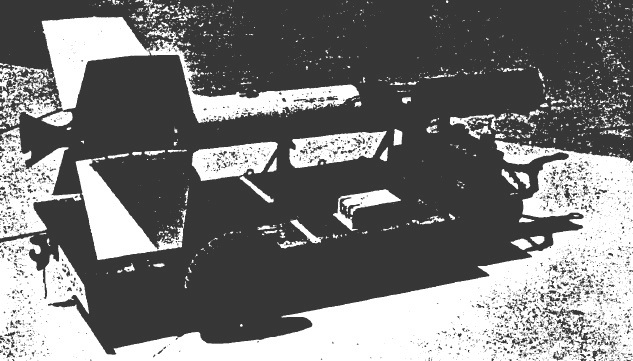 Single-Unit Booster Assembly on Handling Dolly (WSPG, 1948).